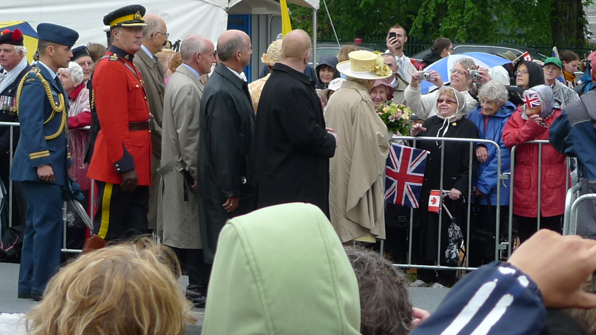 Elizabeth II, the Queen of Canada, greeting crowds in Halifax, Nova Scotia, Canada.